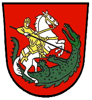 Coat of arms of St. Georgen im Schwarzwald